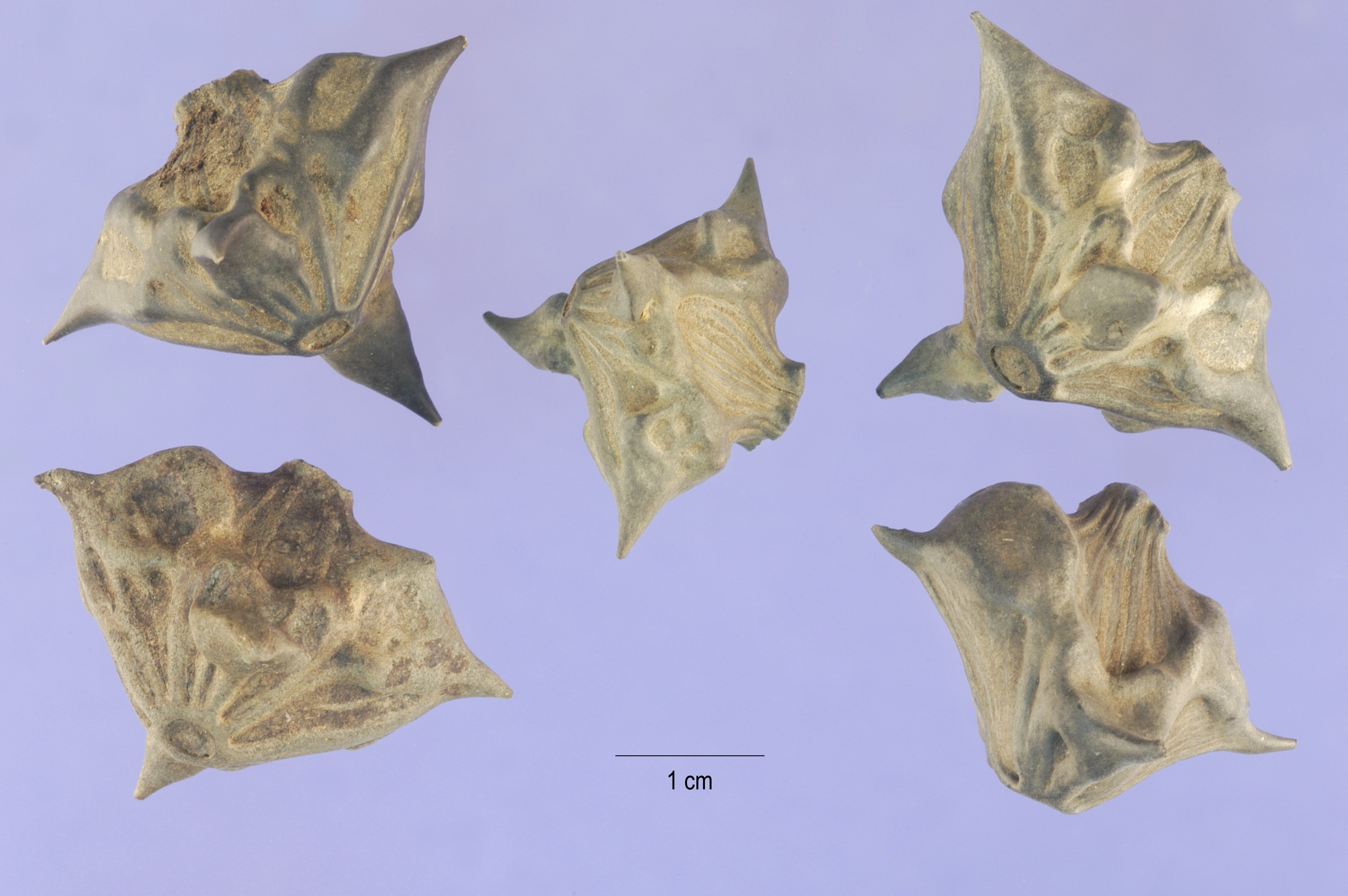 Trapa natans L. (water caltrop or water chestnut)